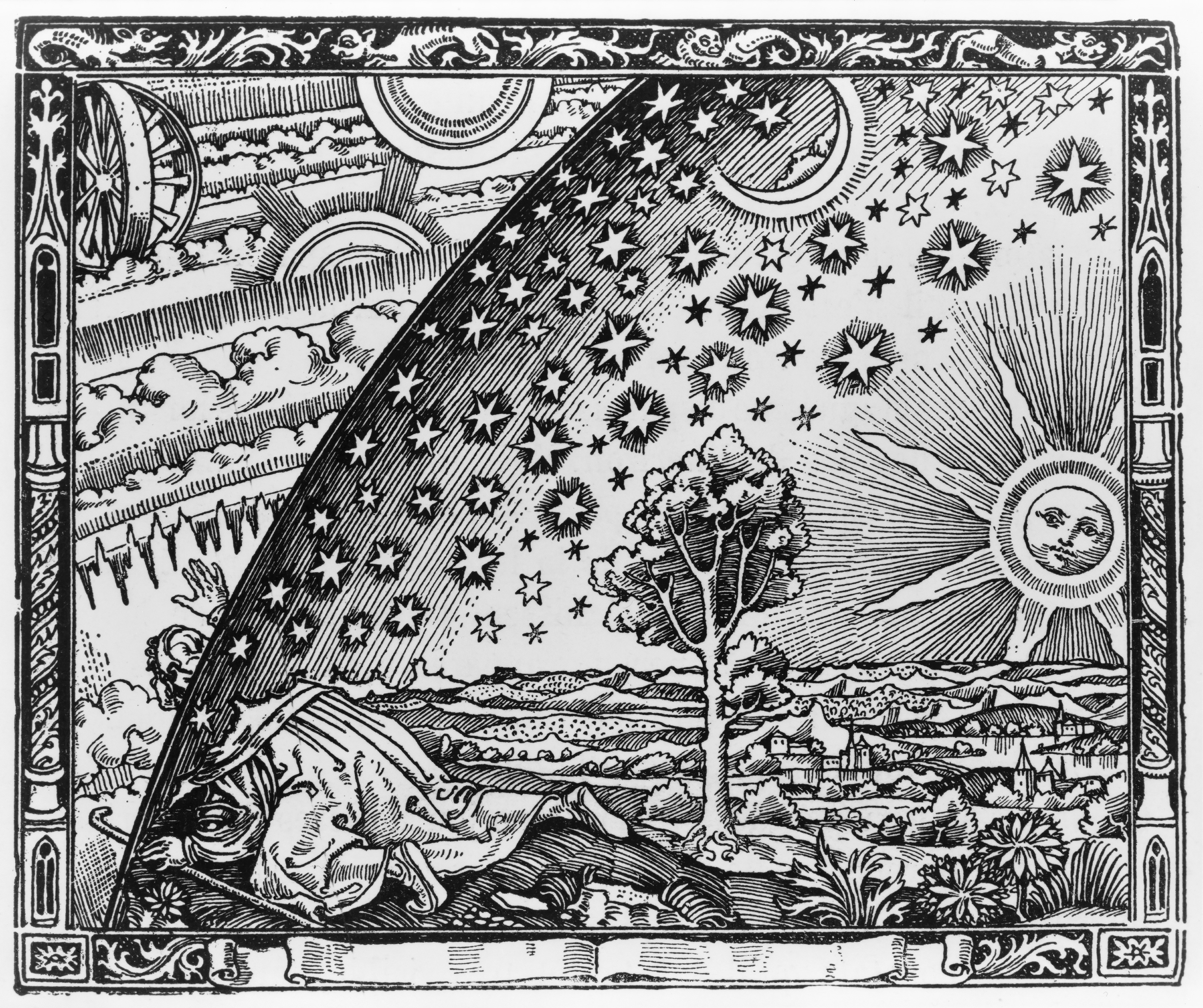 The Flammarion engraving is a wood engraving by an unknown artist that first appeared in Camille Flammarion's L'atmosphère: météorologie populaire (1888). The image depicts a man crawling under the edge of the sky, depicted as if it were a solid hemisphere, to look at the mysterious Empyrean beyond. The caption underneath the engraving (not shown here) translates to "A medieval missionary tells that he has found the point where heaven and Earth meet..."